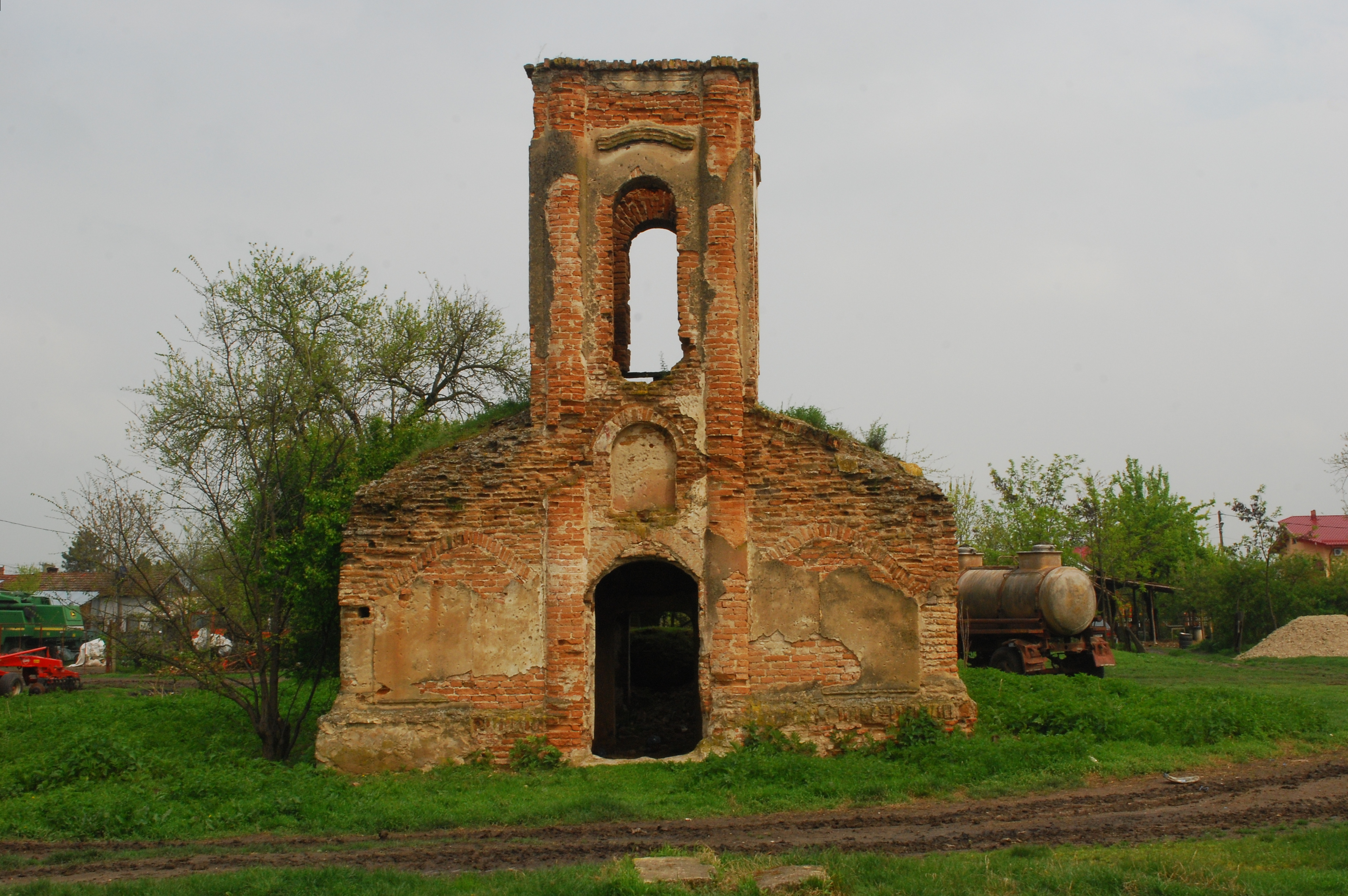 Ruins of the Holy Trinity church in Pietroșani, Teleorman County, Romania